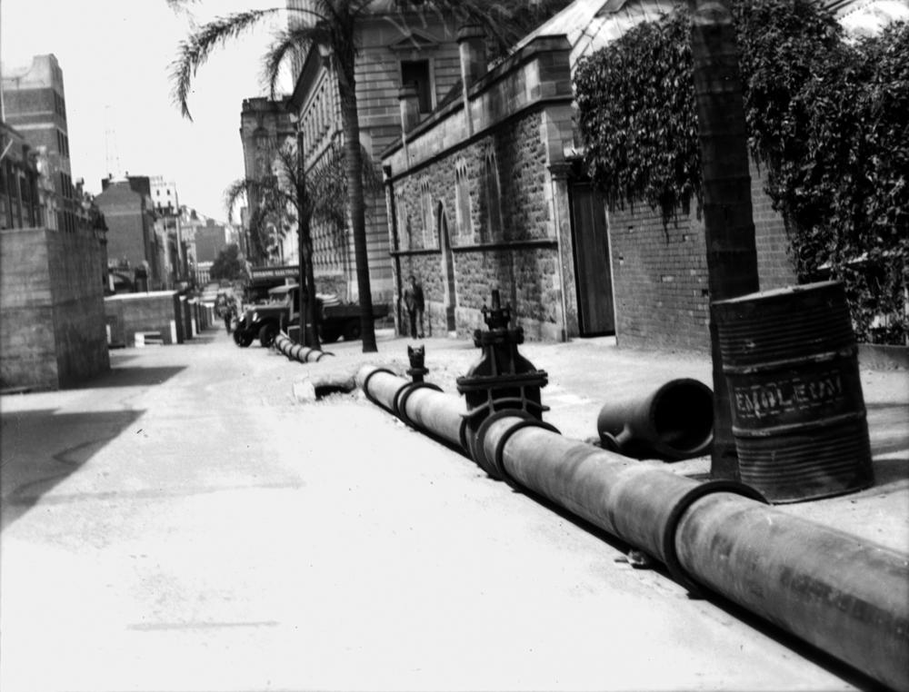 Saltwater pipes installed in Elizabeth Street, Brisbane, 1942. Emergency saltwater firefighting pipes were installed in Brisbane during World War II for use in case of an air raid. (Description supplied with photograph).